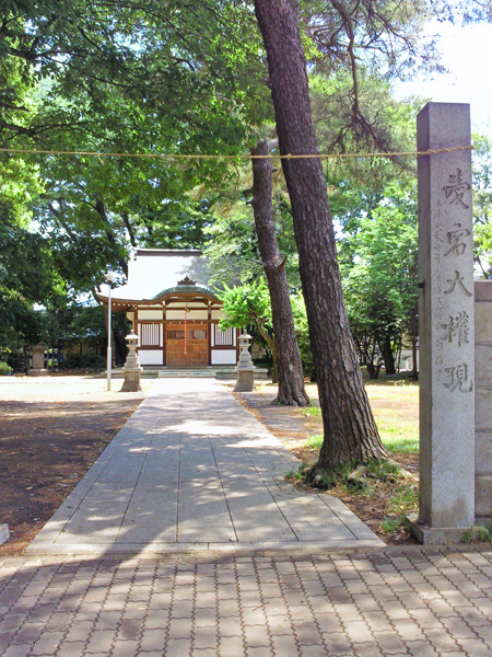 Atago-gongen-sha, - at Midori-chō, Tokorozawa, Saitama, Japan.